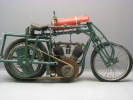 Anzani 2400 cc Pacing Bike